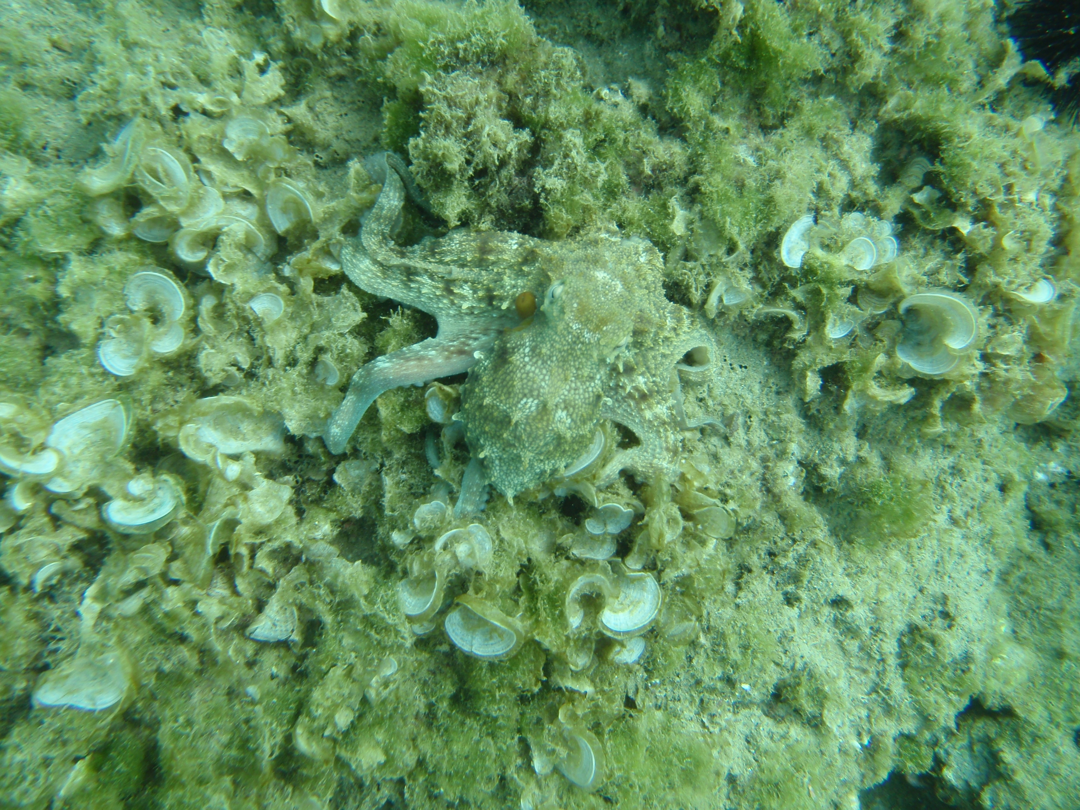 Octopus - Greece